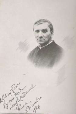 Portrait & signature of French poet and a prist-monk Louis Le Cardonnel (1862–1936), 1924-12-02.